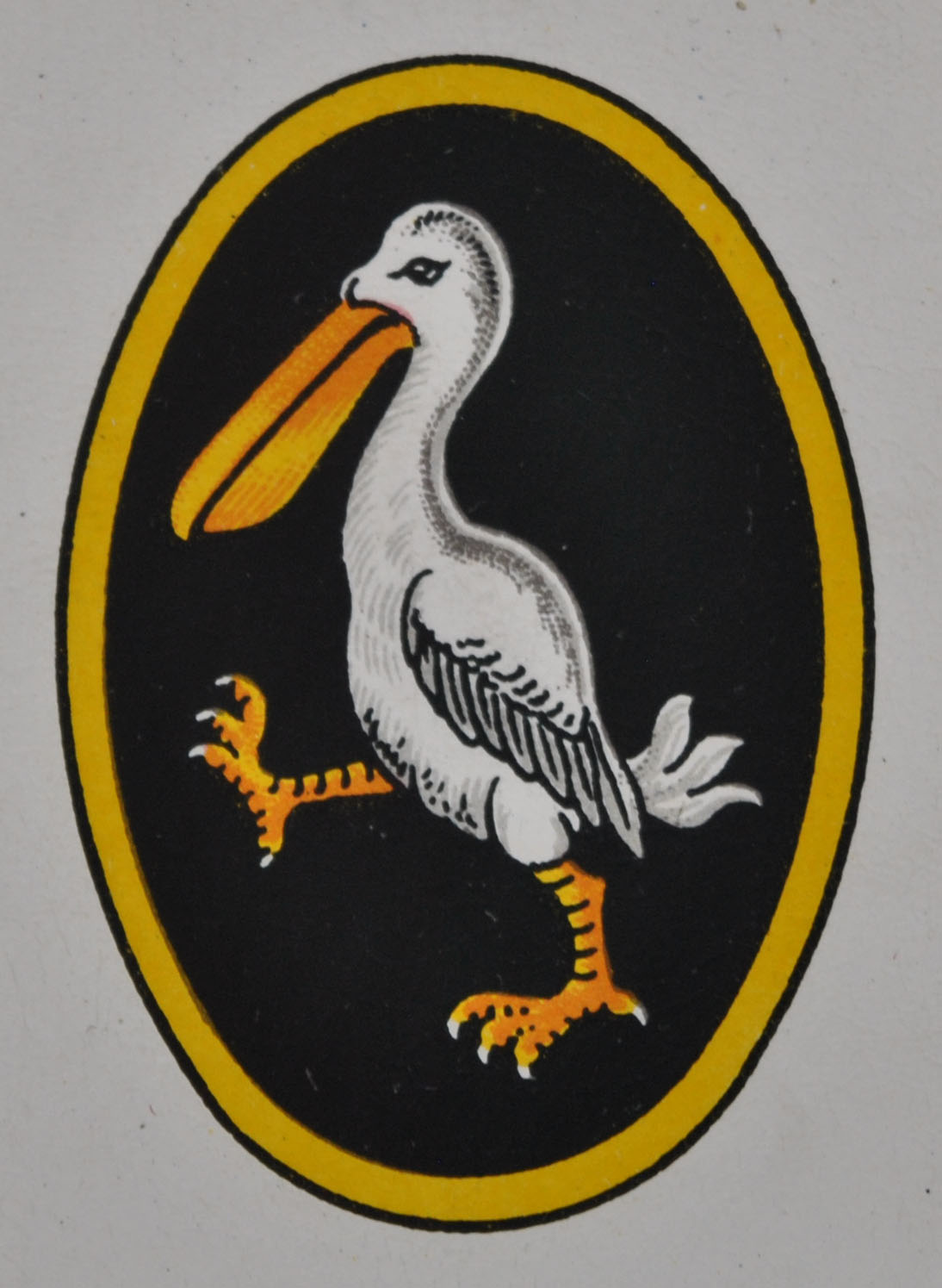 Formation sign of the 62nd (2nd West Riding) Division WW1. Christened a 'duck', it was said by the troops of the division, "when t'duck puts foot down, t'war'll be ower". When the division, (the only Territorial division to do so), took up its occupation duties in Germany, the 'duck' was painted with its foot down on divisional transport.